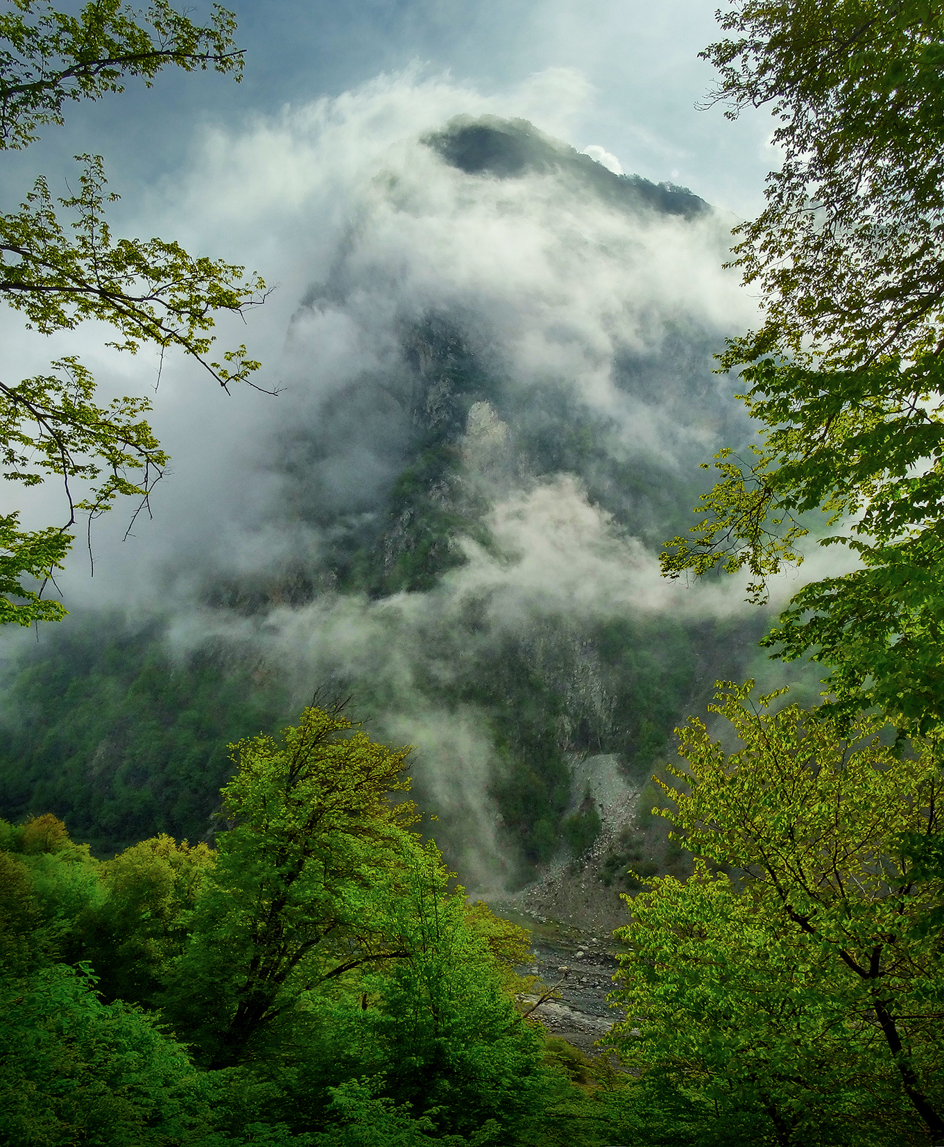 Nature of Gabala rayon, Azerbaijan